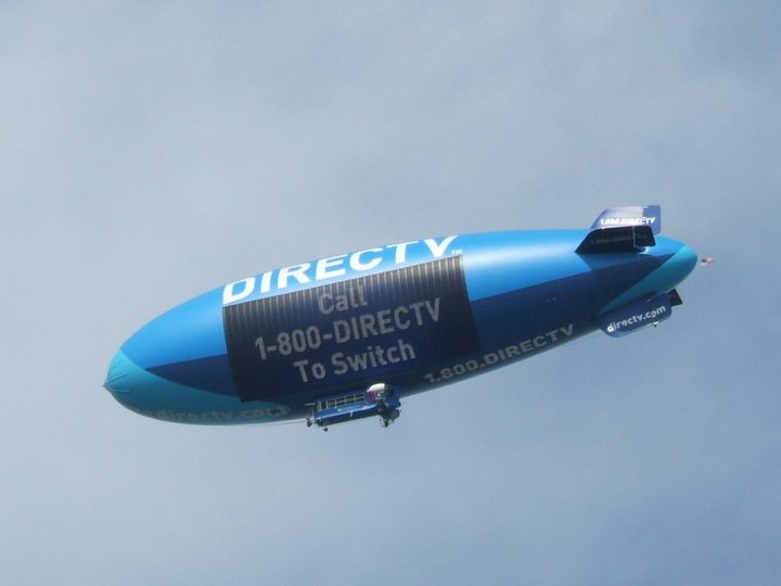 DIRECTV Blimp flying over statue of Liberty on July 4th, 2011. NYC